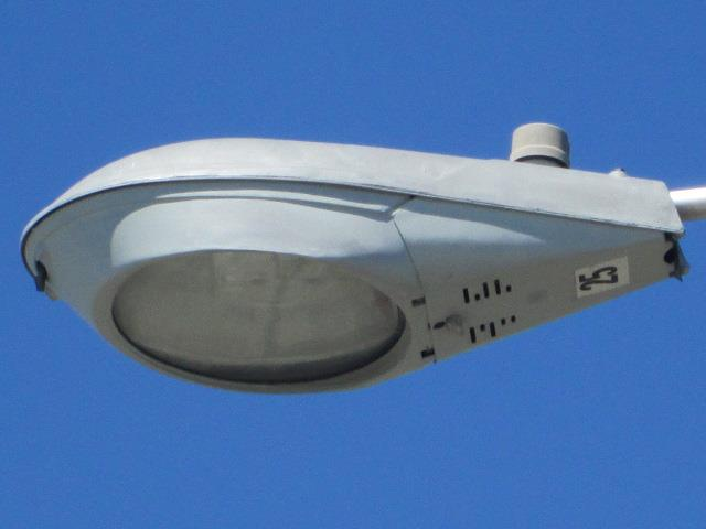 History of street lighting: General Electric M400A1 (1967–1985) Full-Cutoff (150–400 watts)